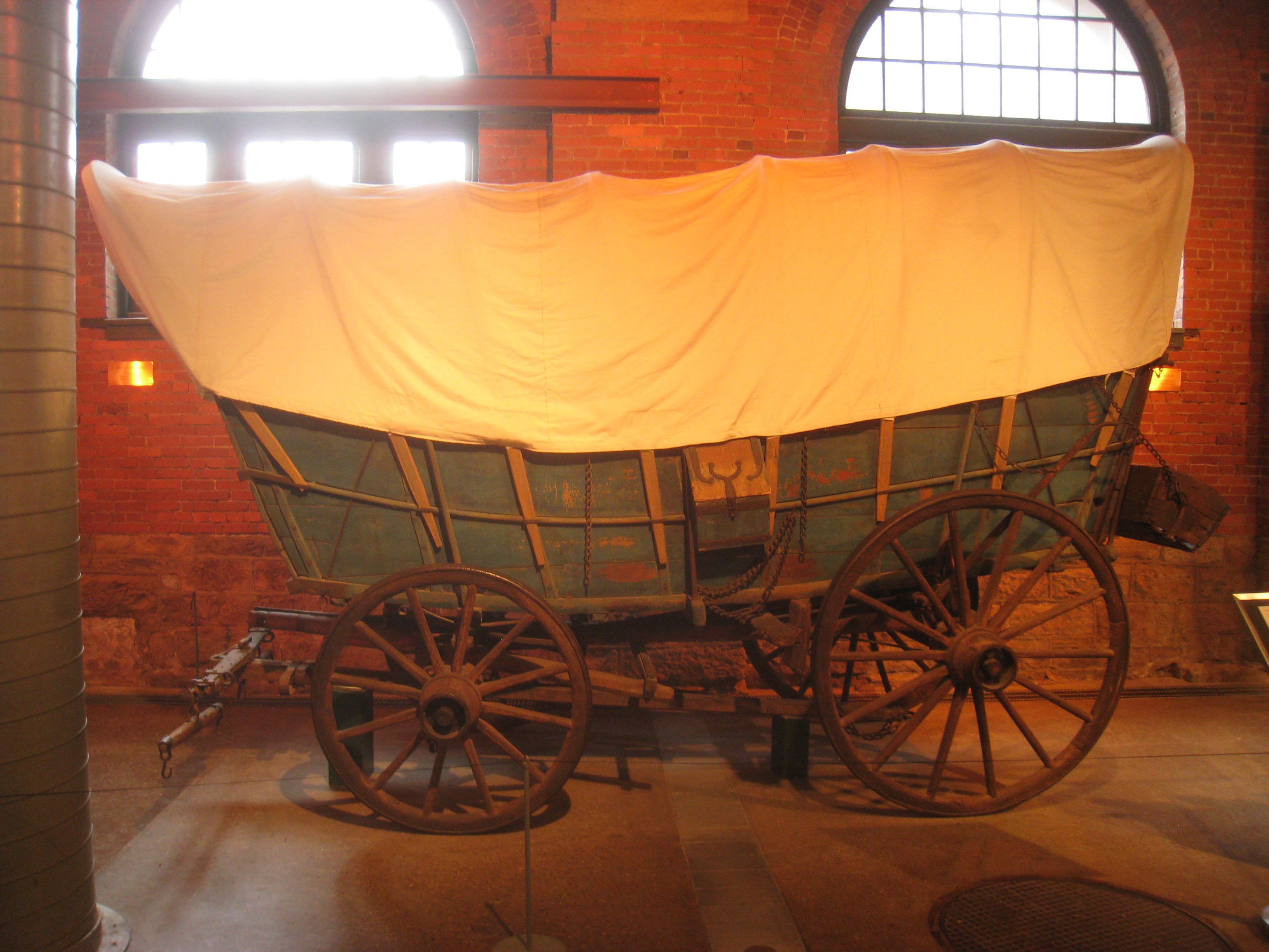 Conestoga wagon, circa 1784, used by George Fleck to move his family to western Pennsylvania. Exhibit in the Senator John Heinz History Center, 1212 Smallman Street, Pittsburgh, Pennsylvania, USA. There were no restrictions on photography in the museum collections.